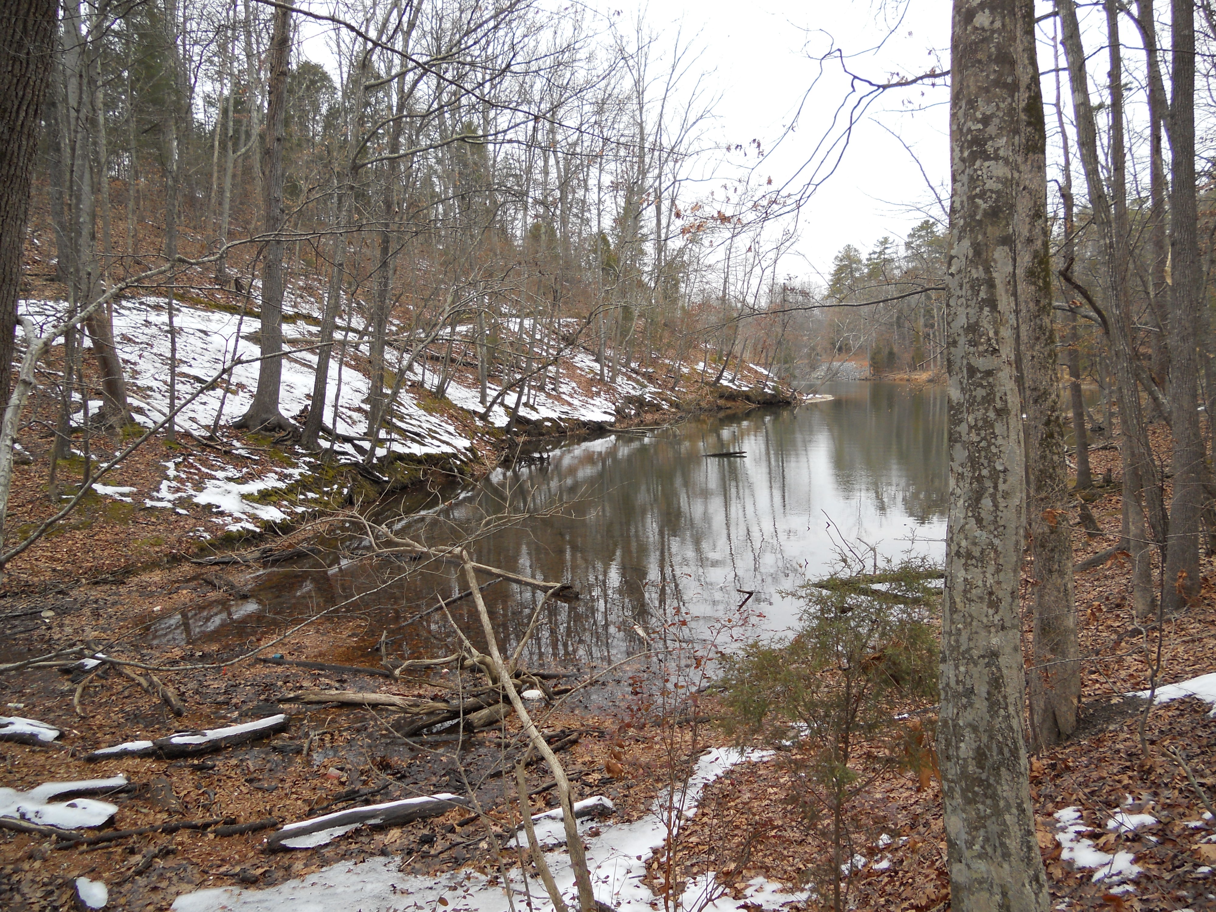 Lake Wylie Cove at McDowell Nature Preserve